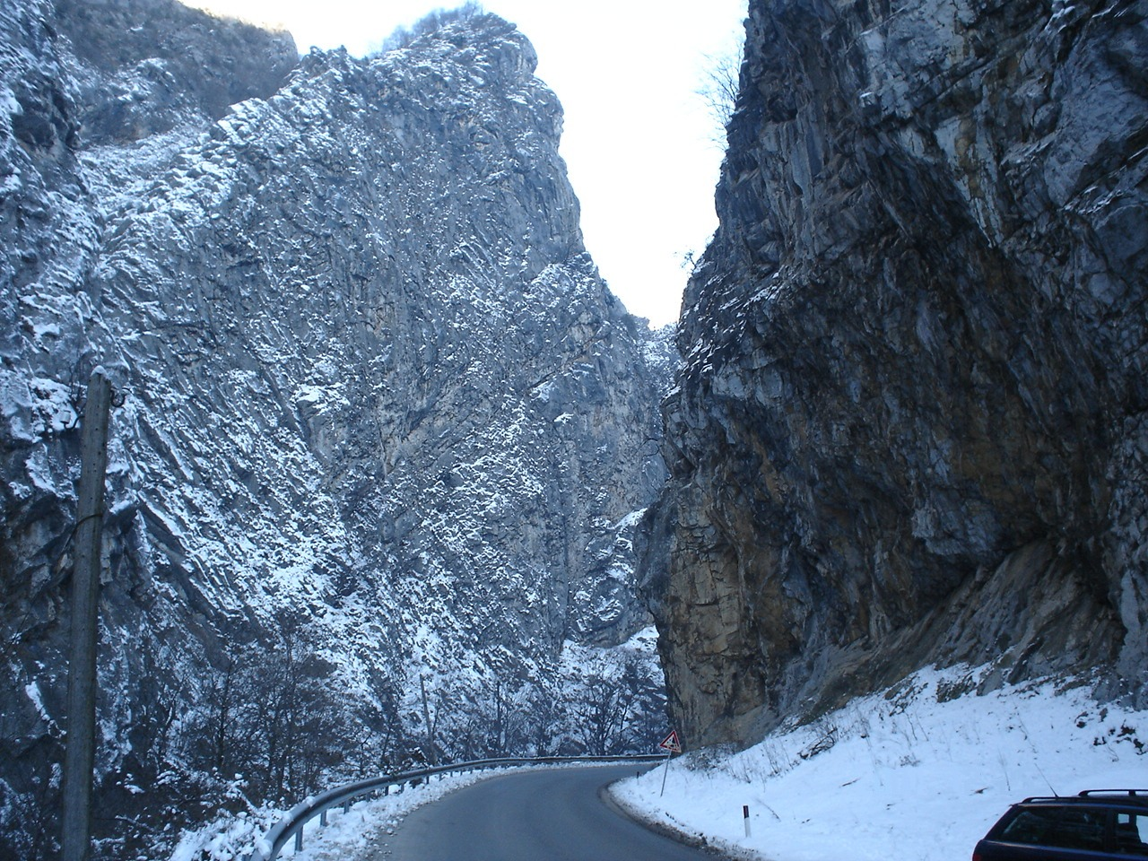 The Shar mountain range